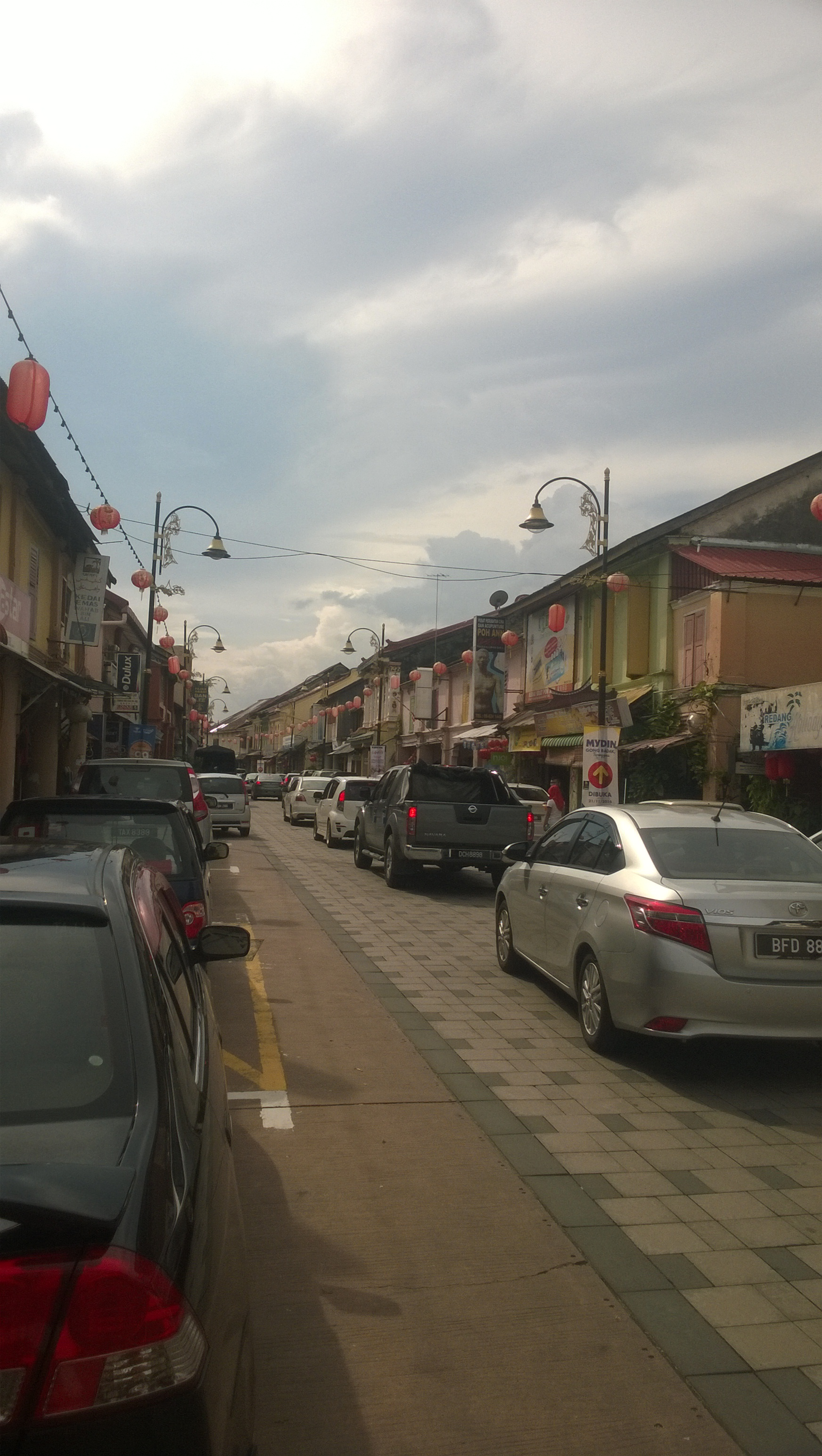 A view of Chinatown, Kuala Terengganu, Terengganu, Malaysia.